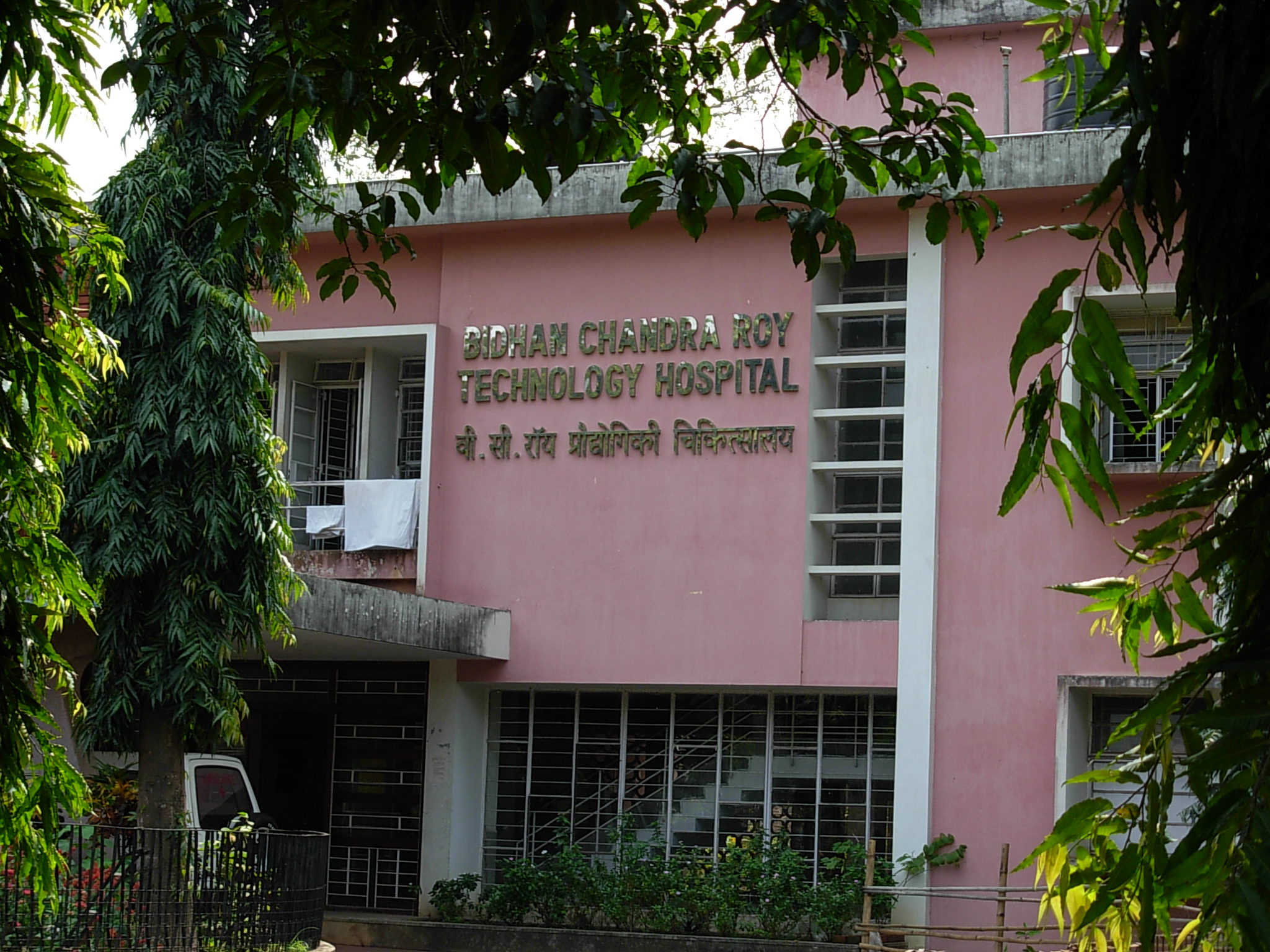 Bidhan Chandra Roy Technology Hospital in IIT Kharagpur